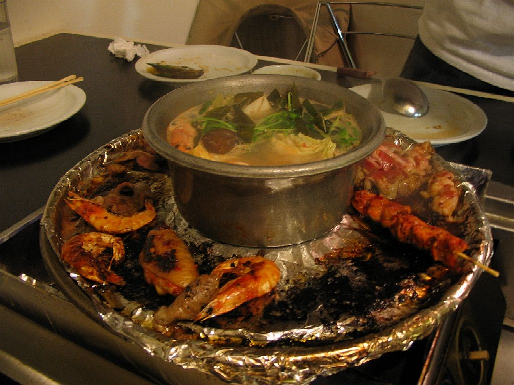 Hot pot with a grill surrounding it. Picture taken April 23, 2005 by Allen Timothy Chang.